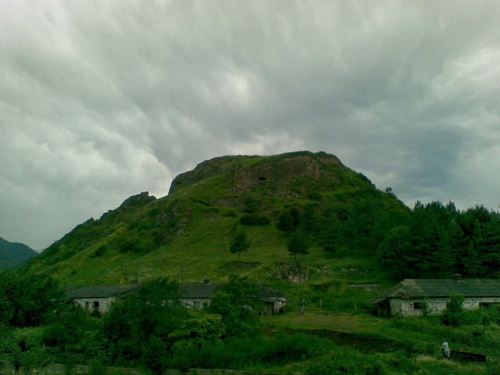 «Tavush» (Tauus) fortress in Tavush province of Armenia near Berd city.